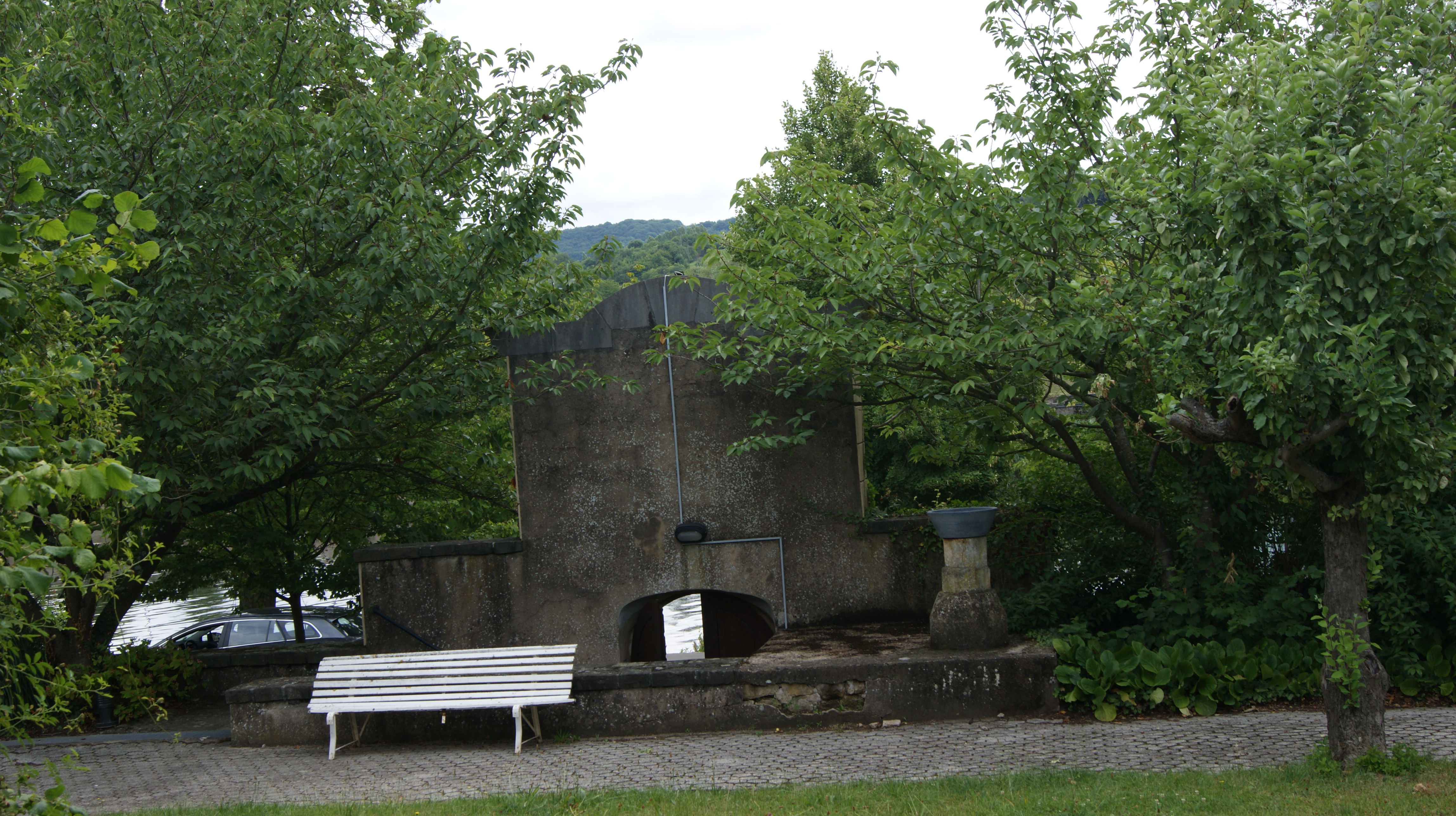 Schengen Castle was built in the 13th century as a moated castle. The castle is located in Schengen, Luxembourg. From the original moated castle only one of the four round towers is preserved. In 1968 this round tower was added to the "Lëscht vun de klasséierte Monumenter" (protected monument). Garden, view to the Moselle.